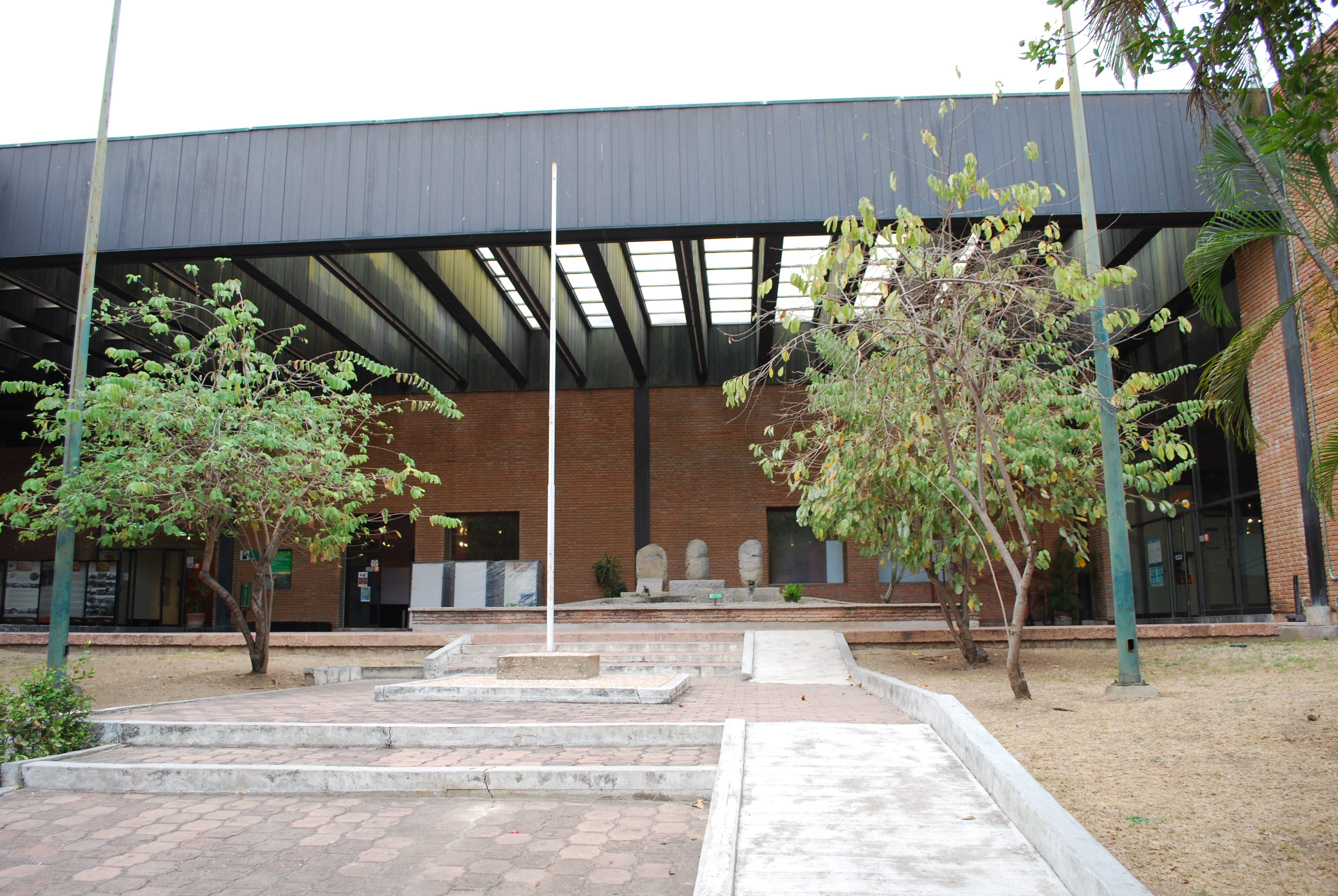 Part of the facade of the Regional Museum in Tuxtla Gutierrez, Chiapas, Mexico